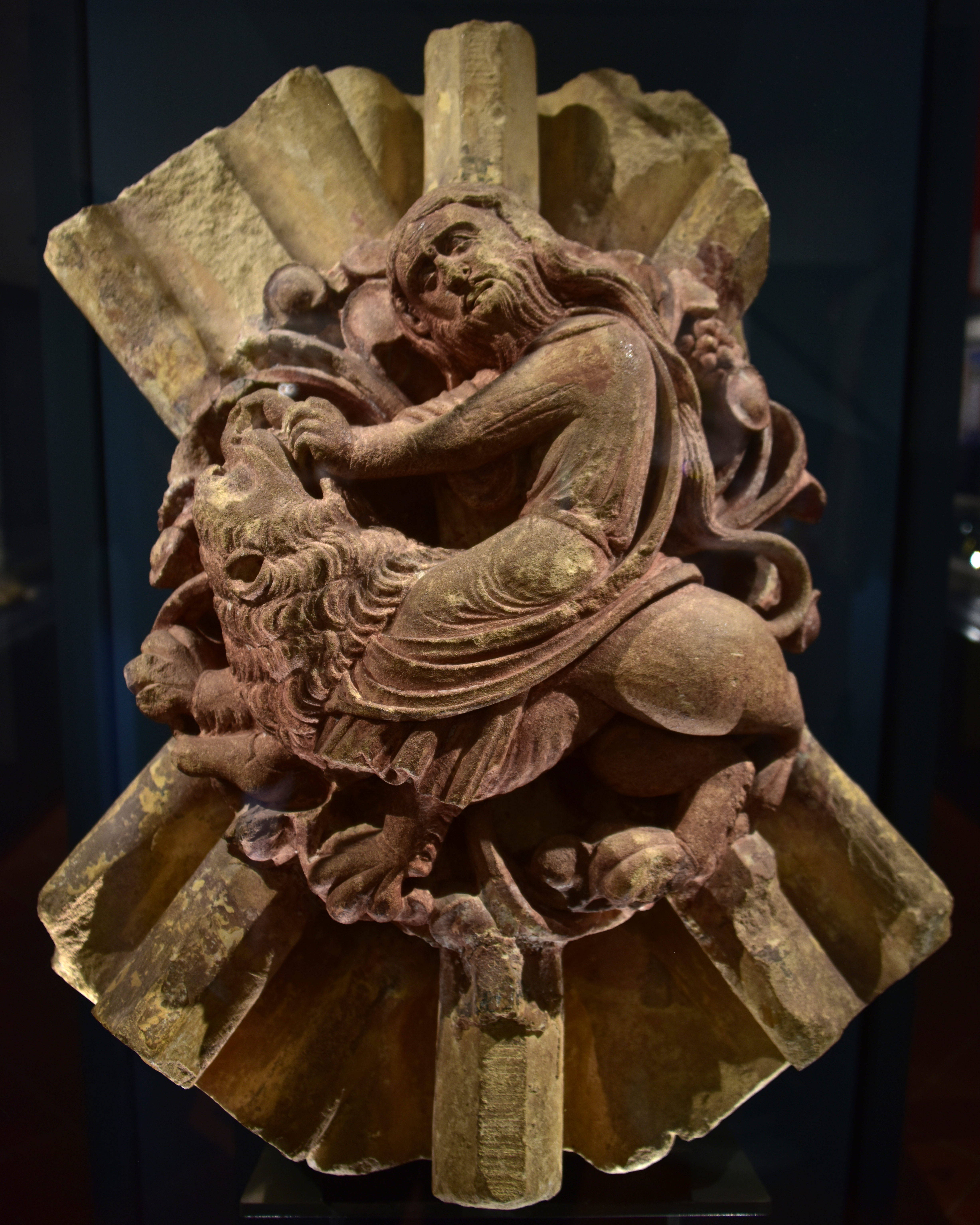 A boss depicting Samson that was once on the keystone of the pillars in Hailes Abbey's great hall.